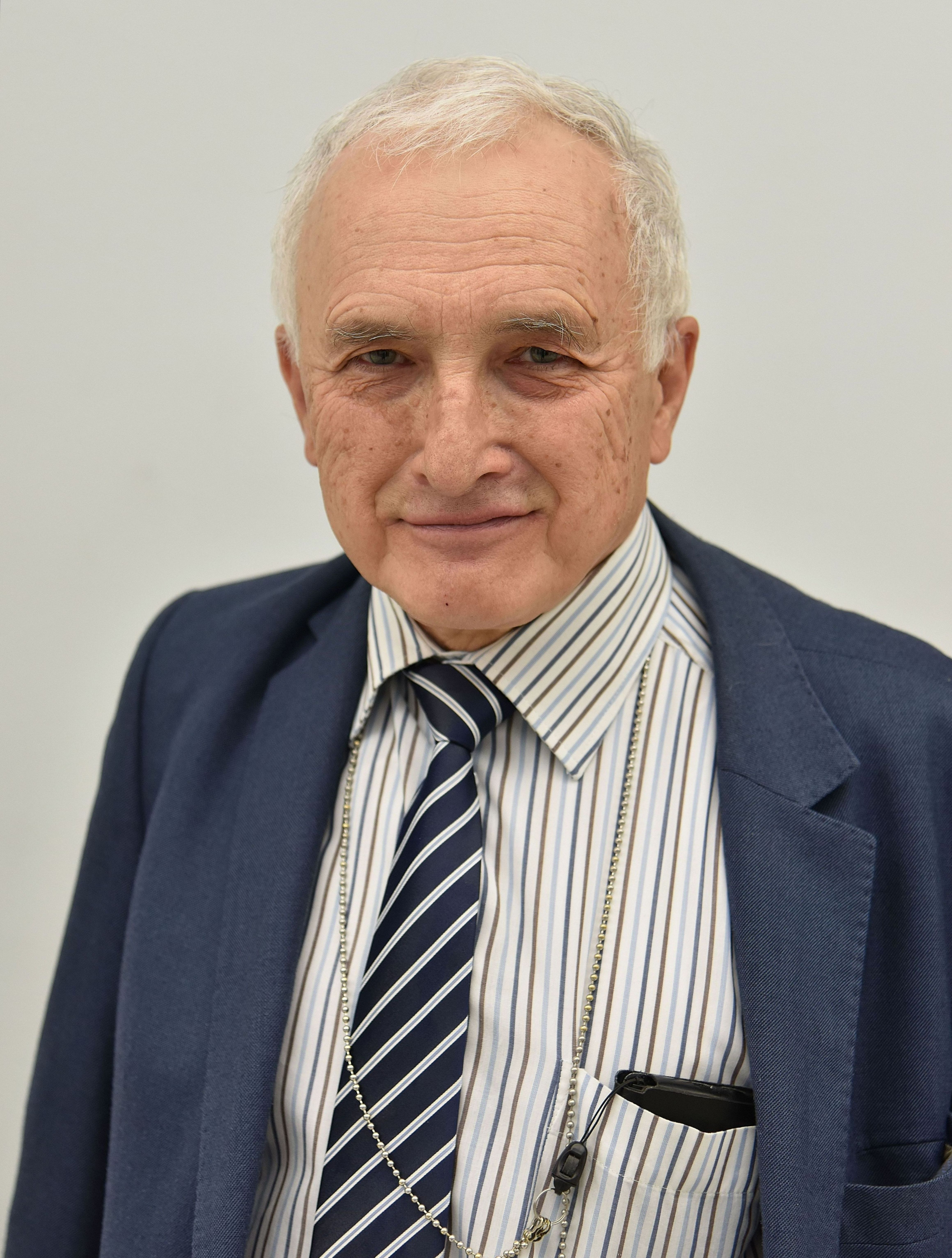 Polish MP Jerzy Żyżyński in the Sejm